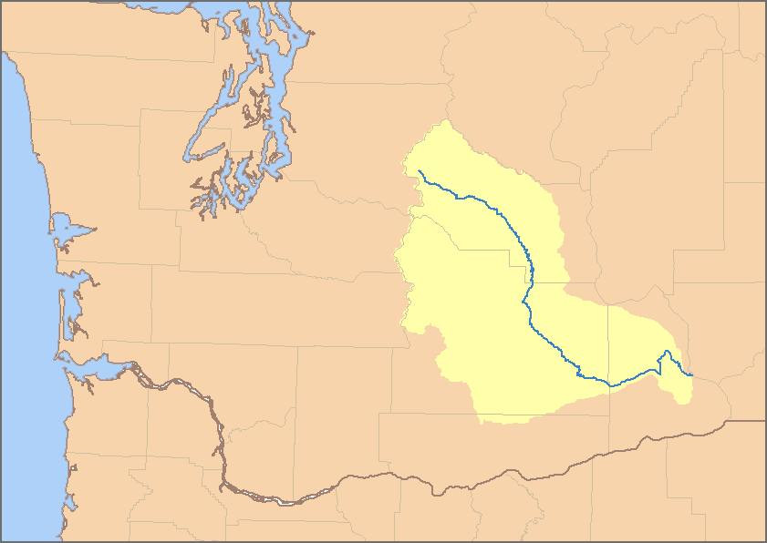 This is a map of the Yakima River watershed. I, Pfly, made it, based on USGS data.